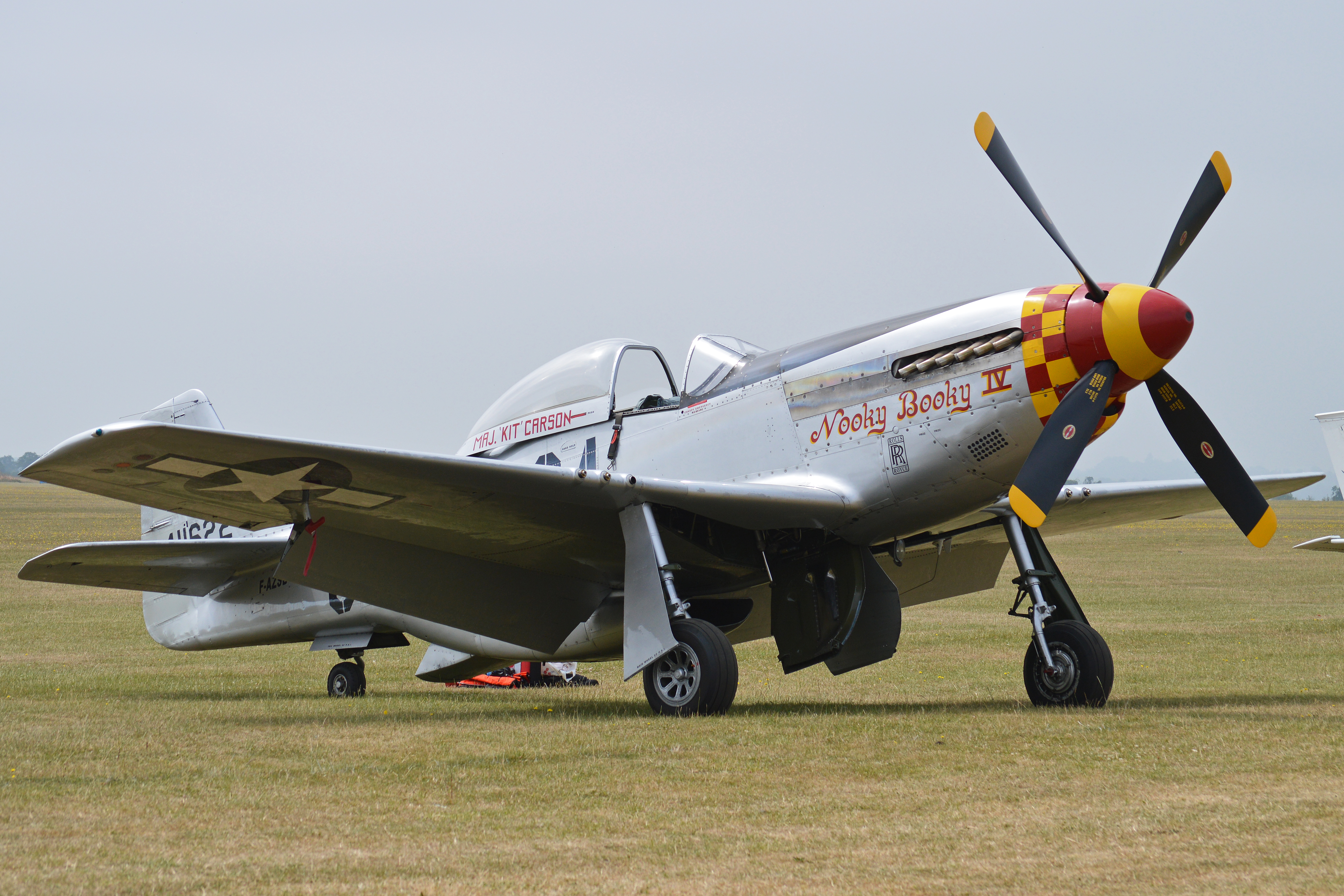 Operated by SNC Société de Développement et de Promotion de l'Aviation (SDPA) and based at La Ferte Alais in France, this Mustang is painted to represent 'Nooky Booky IV' flown by Major 'Kit' Carson of the 362nd Fighter Squadron, 357th Fighter Group based at Leiston in Suffolk. Actual US military serial 44-74427. RCAF serial 9592. c/n 122-40967. 2013 Flying Legends airshow. Duxford, UK. 14-7-2013